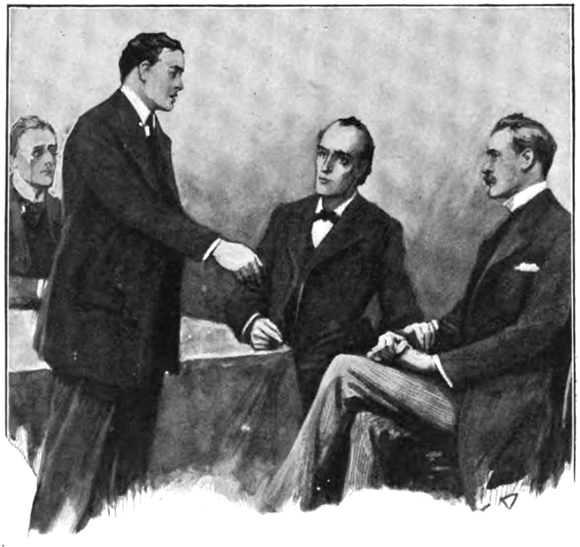 Illustration of the Sherlock Holmes adventure The Hound of the Baskervilles. Illustration appeared in The Strand Magazine in October, 1901. Original caption was "THE PROPOSITION TOOK ME COMPLETELY BY SURPRISE."